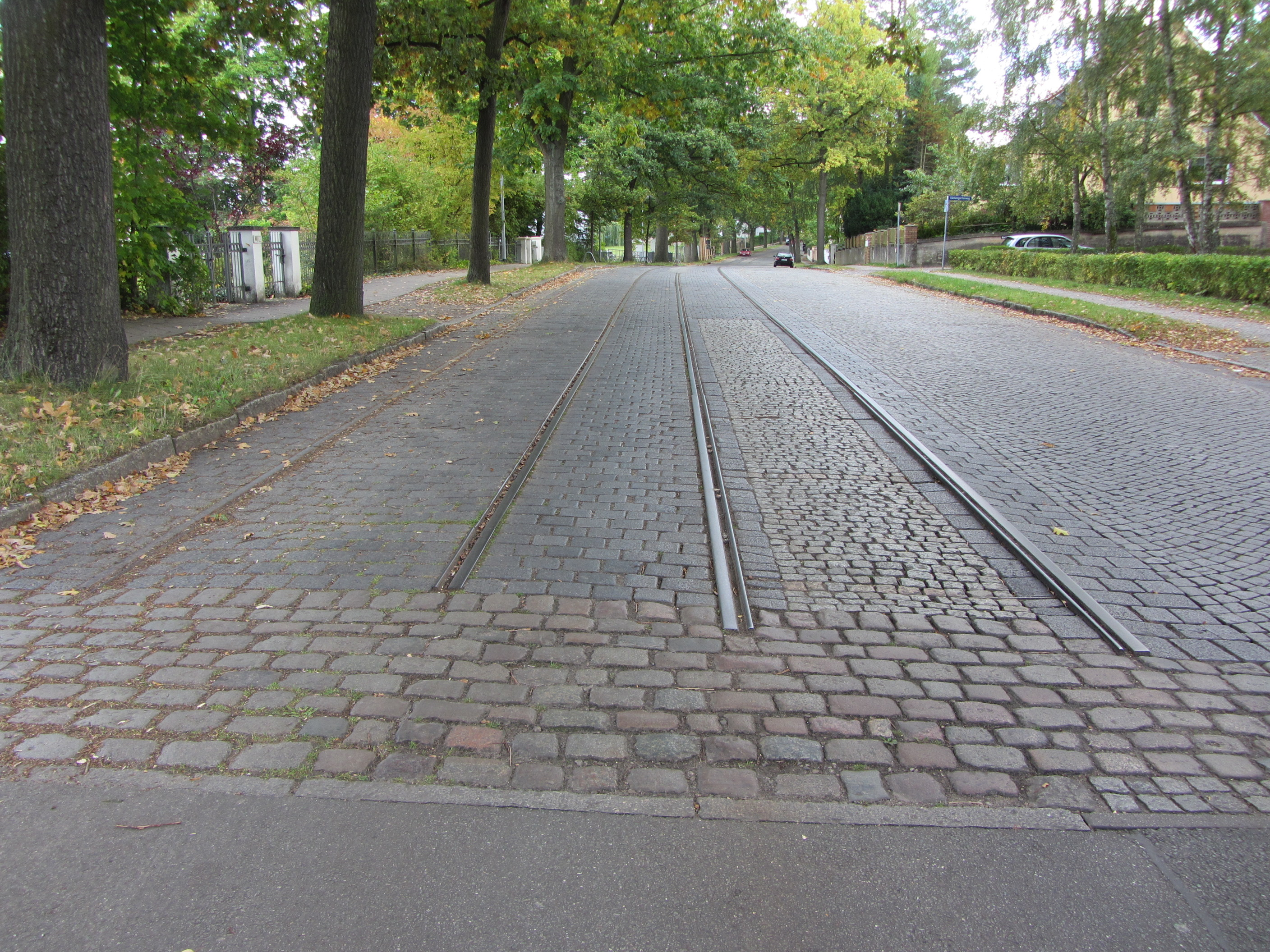 Old, unused rests of tramway tracks in the Schloßgartenallee in Schwerin, Mecklenburg-Vorpommern, Germany